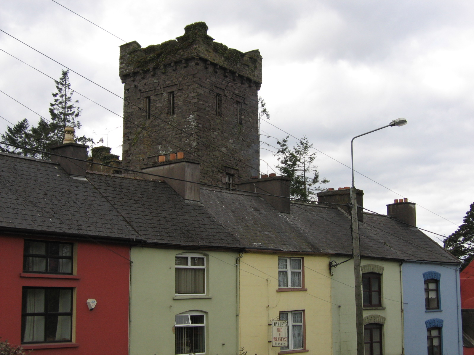 Macroom, County Cork, Republic of Ireland.